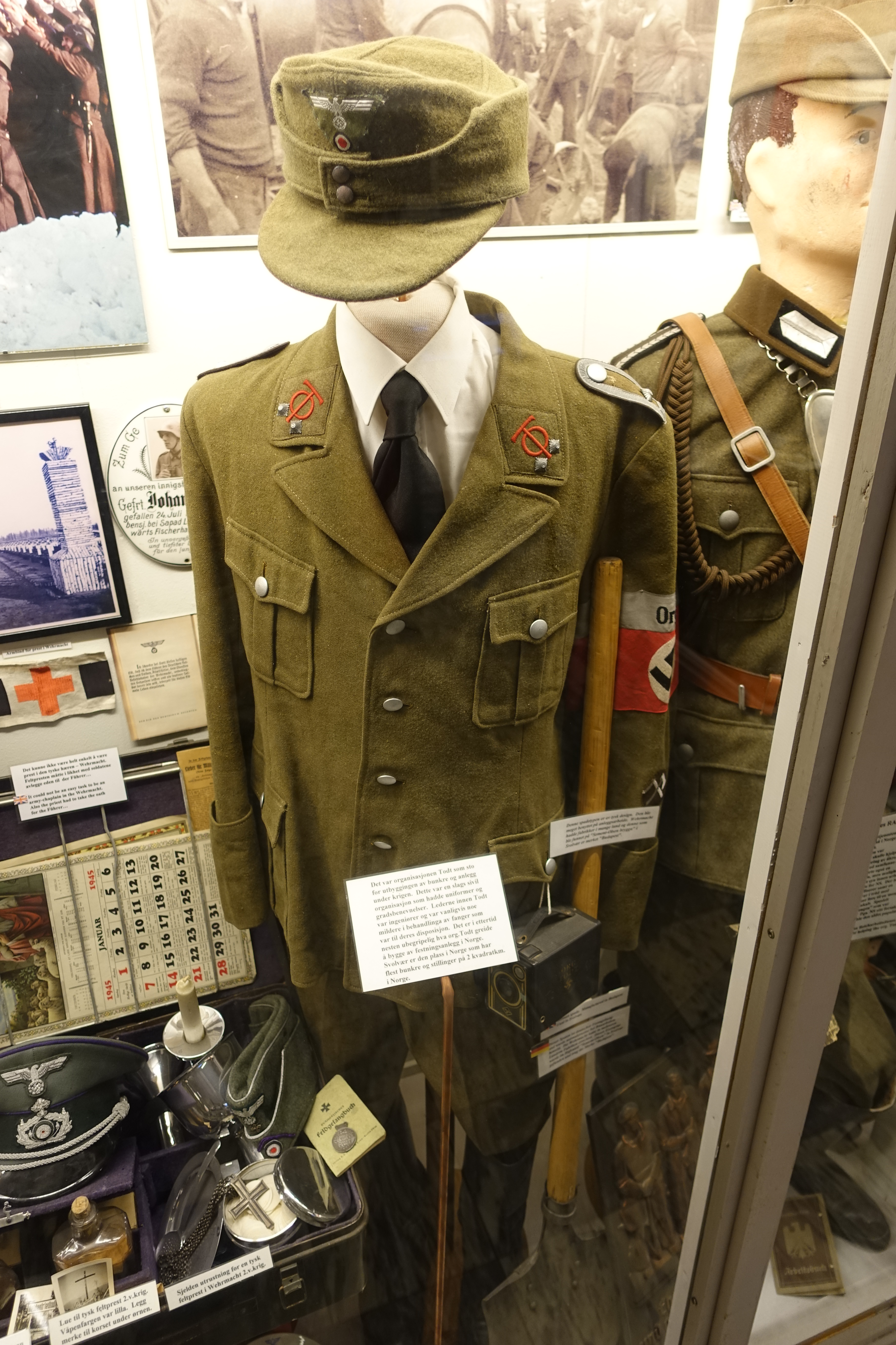 Leader's uniform of the Organisation Todt (OT), a civil and military engineering organisation in Nazi Germany from 1933 to 1945, named for its founder, Fritz Todt. Also posters, German Wehrmacht army chaplain (Feldprediger) visor cap, calendar, shovel, RAD uniform, etc. Photo taken on May 8th, 2019 at Lofoten War Memorial Museum ("Lofoten Krigsminnemuseum") in Svolvær, Norway. The museum exhibits uniforms, smaller items, etc. from World War II and the German occupation of Norway 1940–1945.